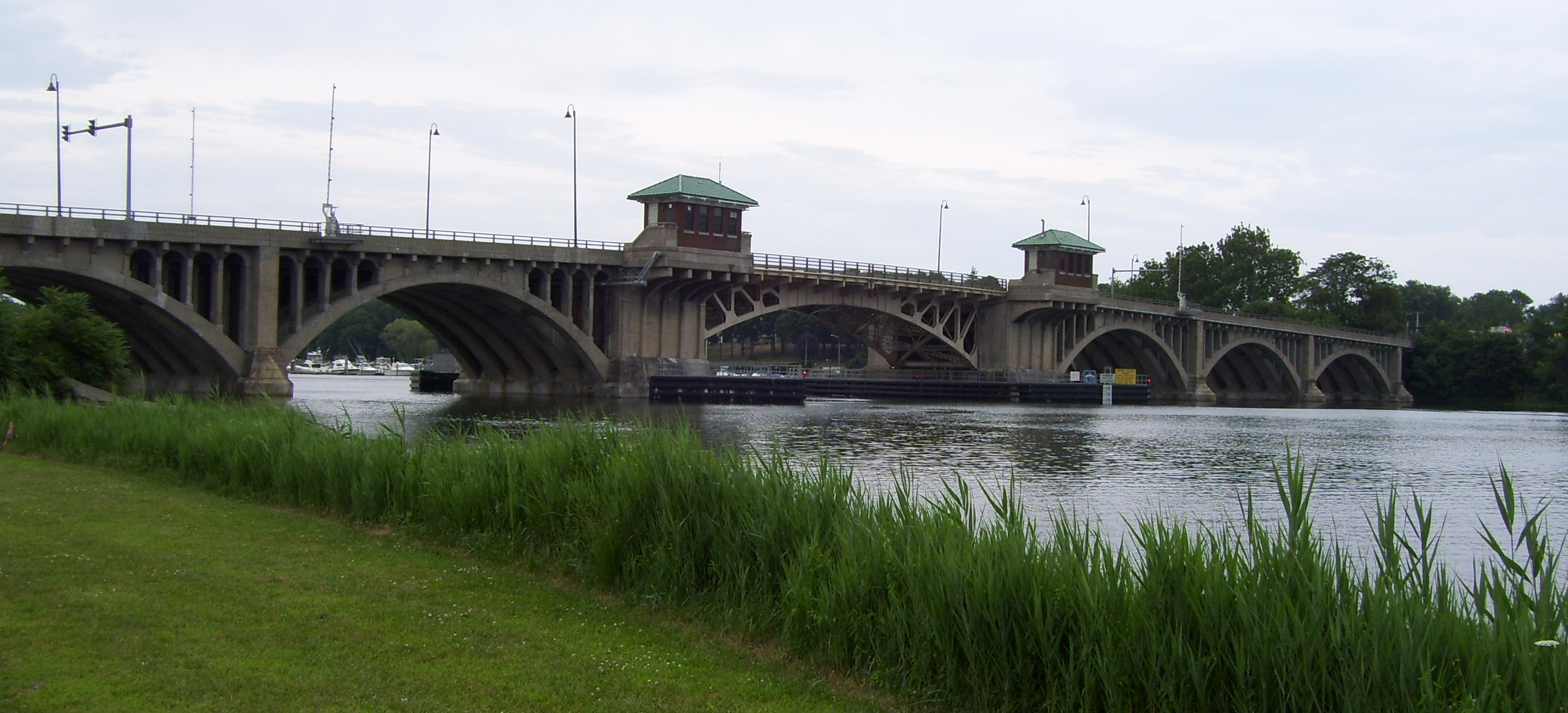 Drawbridge between Milford and Stratford, Connecticut